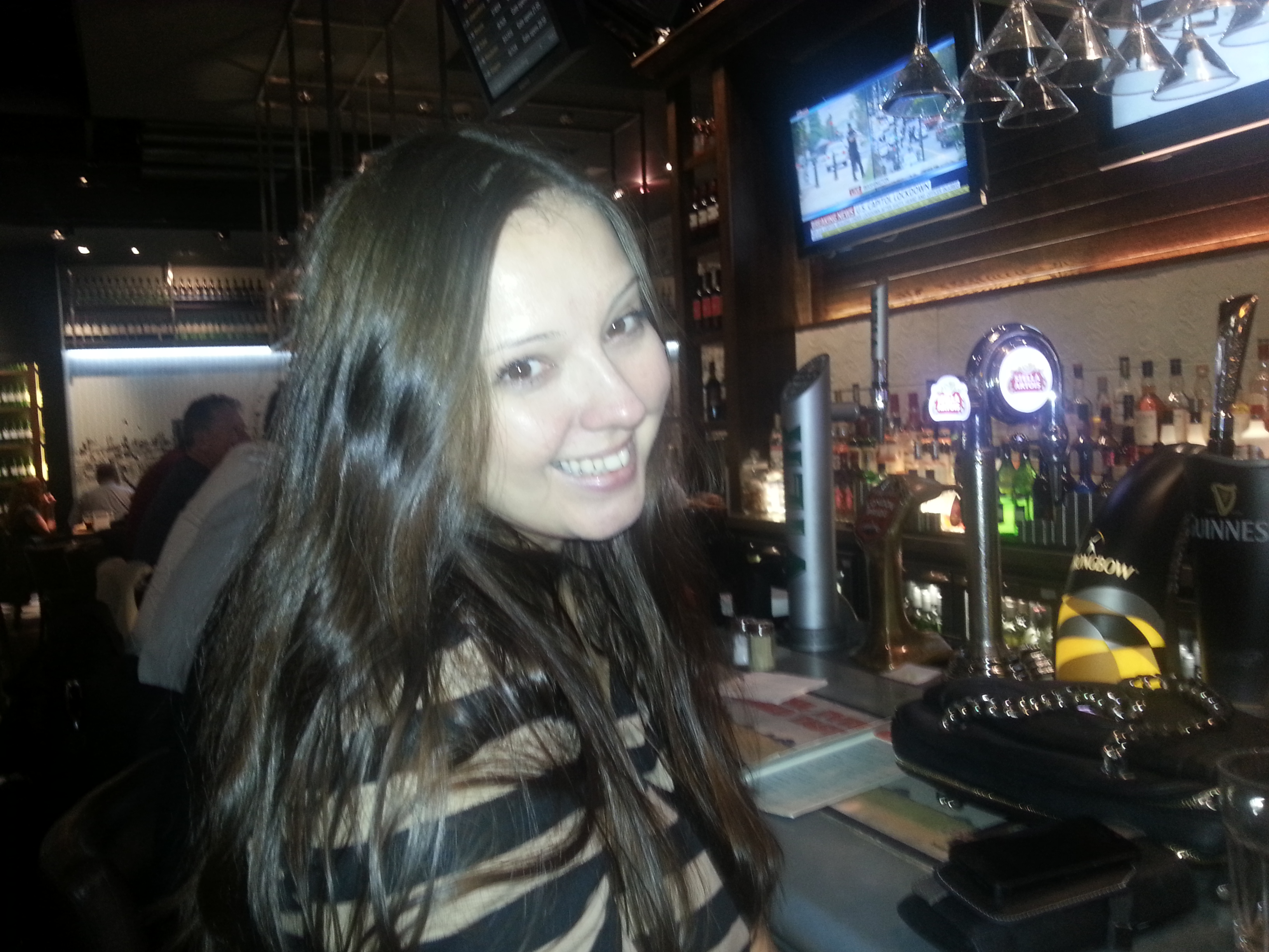 Photo of Amanda Wilson taken at Heathrow with her consent.